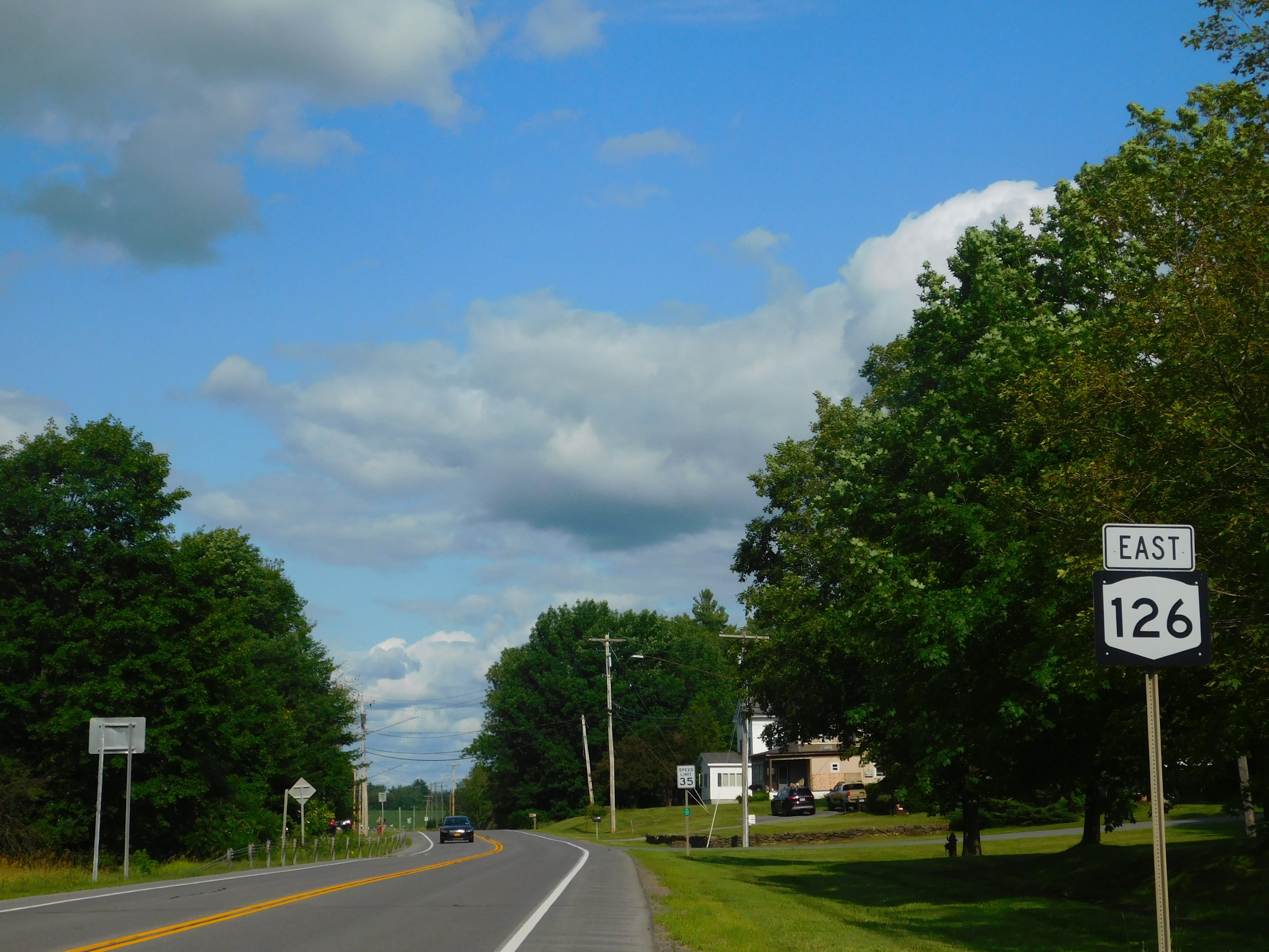 New York State Route 126 eastbound in Beaver Falls, New York.